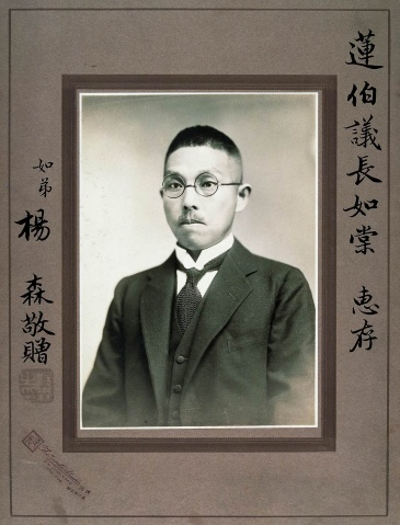 Yang Sen (1884－1977)